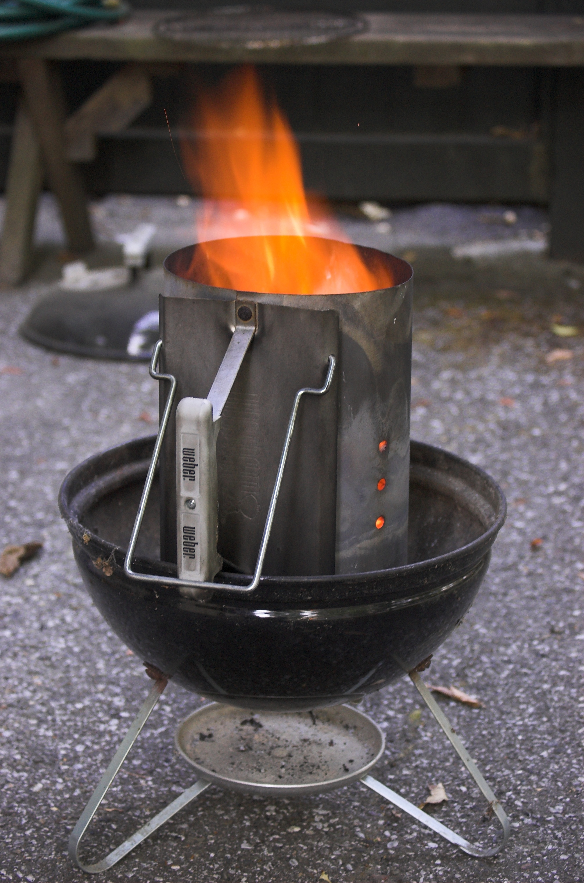 A chimney starter, filled with lit charcoal, sitting in a Weber Smokey Joe grill. Photo taken by me, Joshua Thompson.